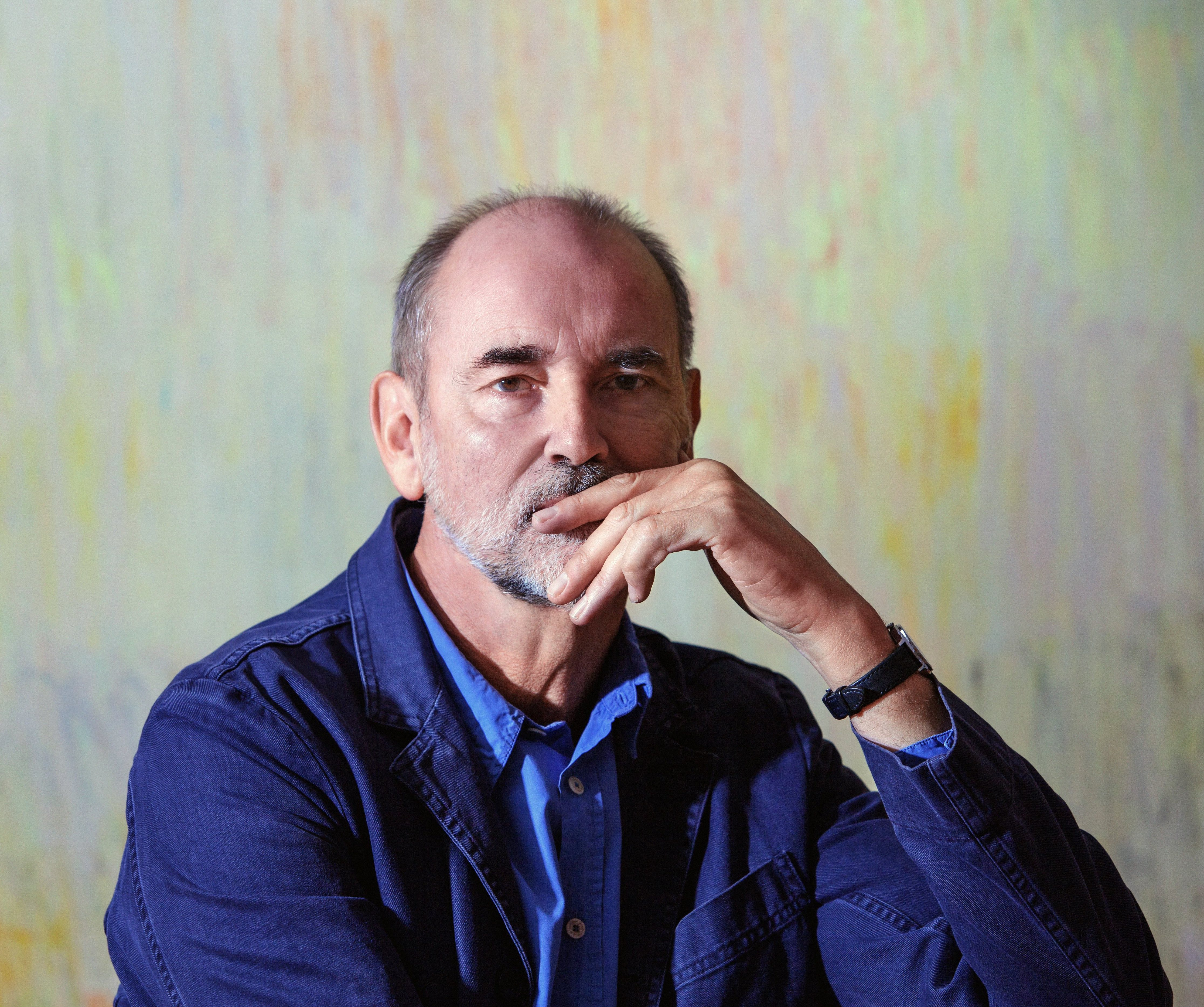 Christopher Le Brun in his studio, 2018. Photo credit: Aliona Adrianova